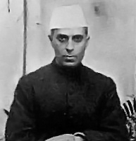 Jawaharlal Nehru, circa 1927